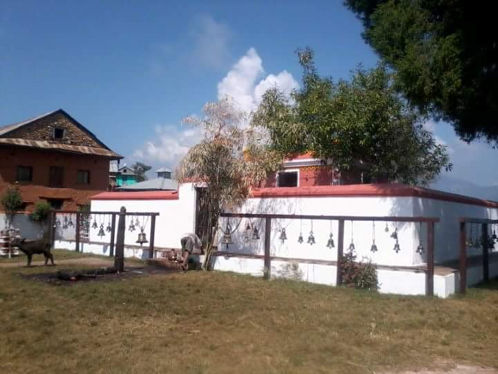 Aalamdevi Temple of Syangja District